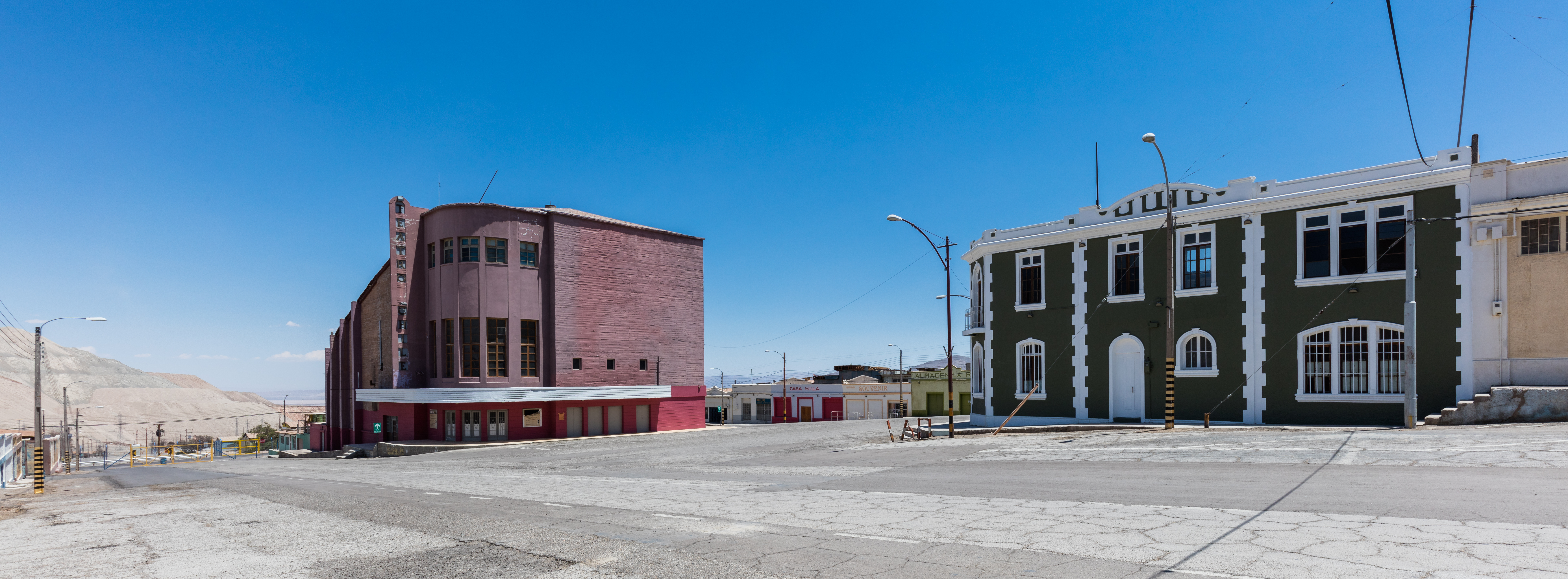 Chuquicamata town, Calama, Chile